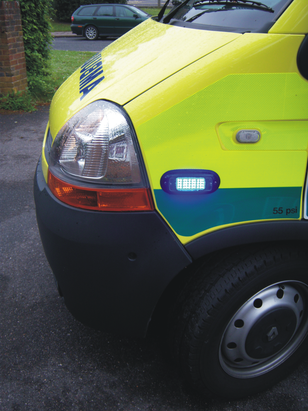 Emergency warning beacon on the side of the bonnet of an ambulance